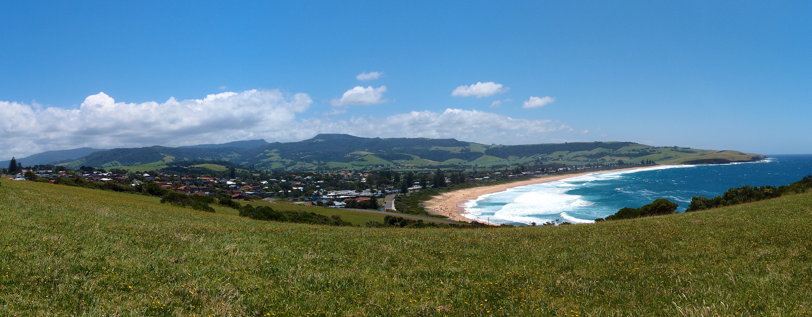 Panorama of Gerringong and Werri Beach from the Southern Headland.